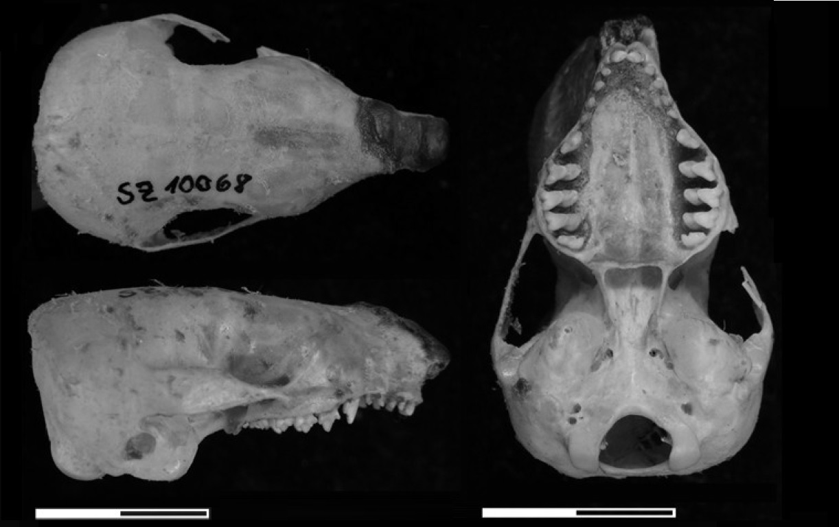 Notoryctes typhlops (ZIUT-SZ10068, Zoologisches Institut Universitat Tübingen, Germany) skull in dorsal (left above), lateral ( below), and ventral (right) views. Scale bars: 10 mm